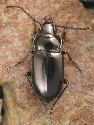 Trachypachus holmbergi, USA: Oregon: Cape Perpetua